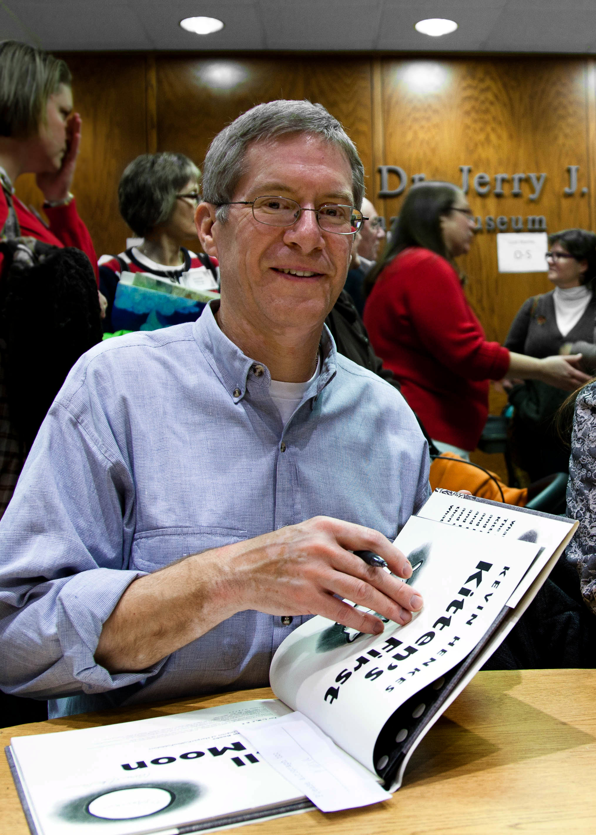 Illustrator Kevin Henkes signing a copy of his Caldecott Medal winner, Kitten's First Full Moon at the Mazza Museum at The University of Findlay.